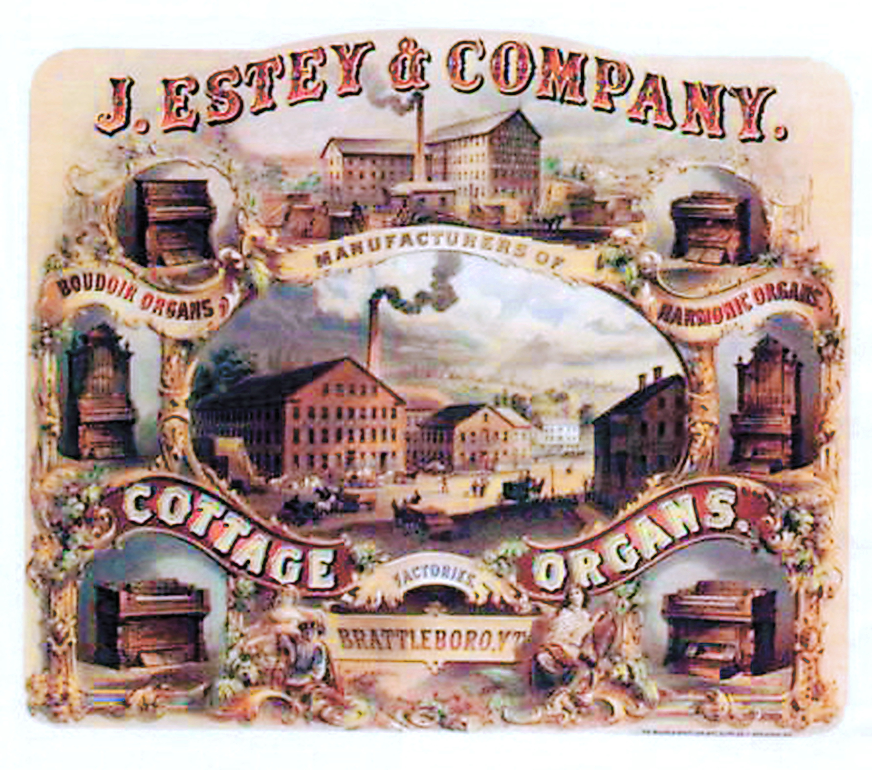 J. Estey & Co. (1866-c.1872) advertisement in the 19th century. J.ESTEY & COMPANY. MANUFACTURERS OF BOUDOIR ORGANS / HARMONIC ORGANS. COTTAGE ORGANS. FACTORIES BRATTLEBORO, VT.